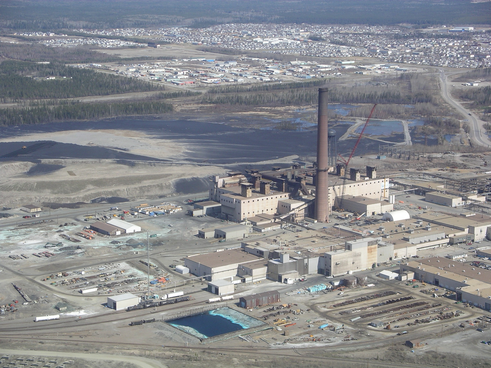 Looking north